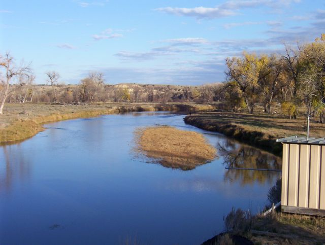 The Tongue River, a tributary of the Yellowstone River, in eastern Montana